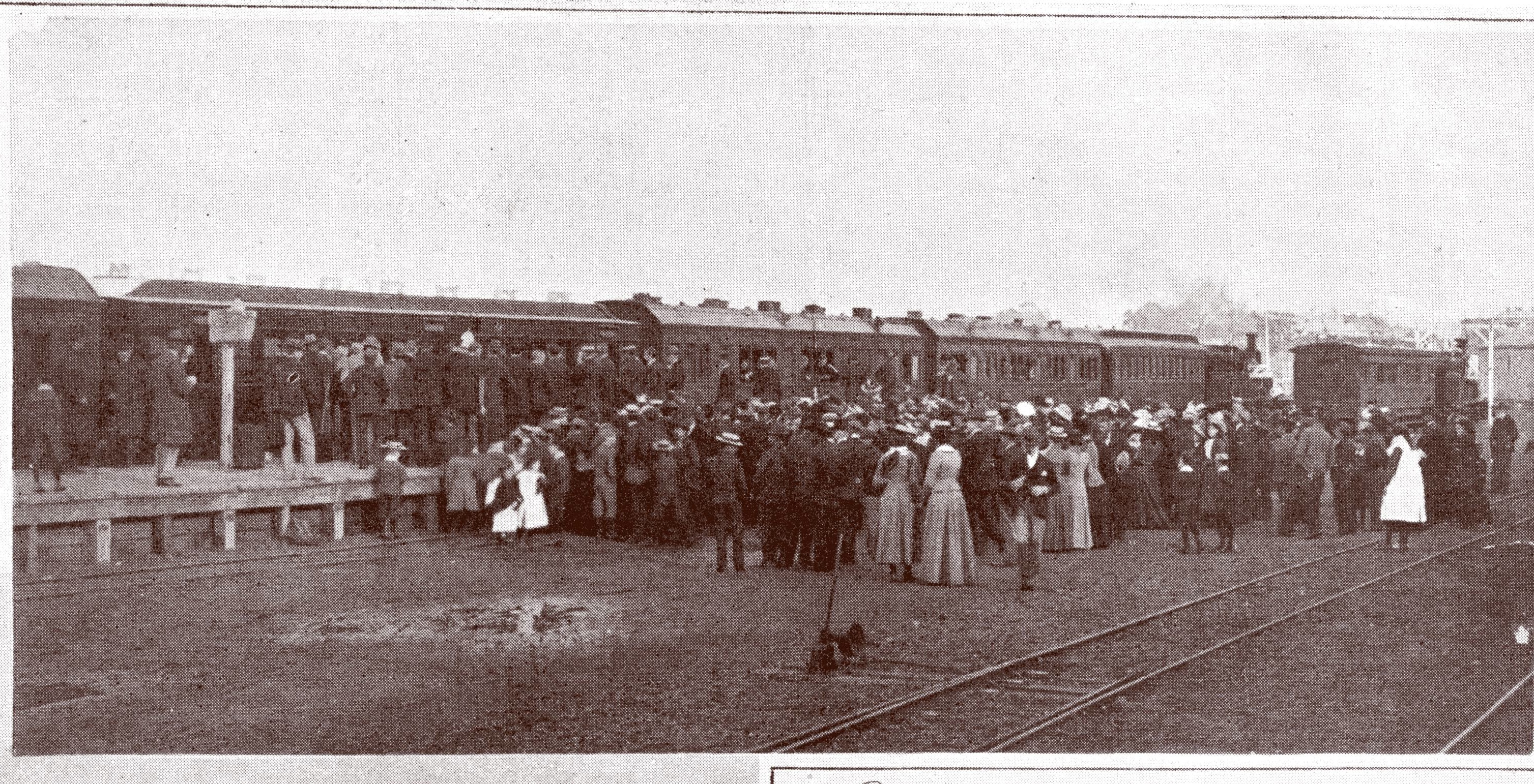 Albany Railway Station and train during royal visit